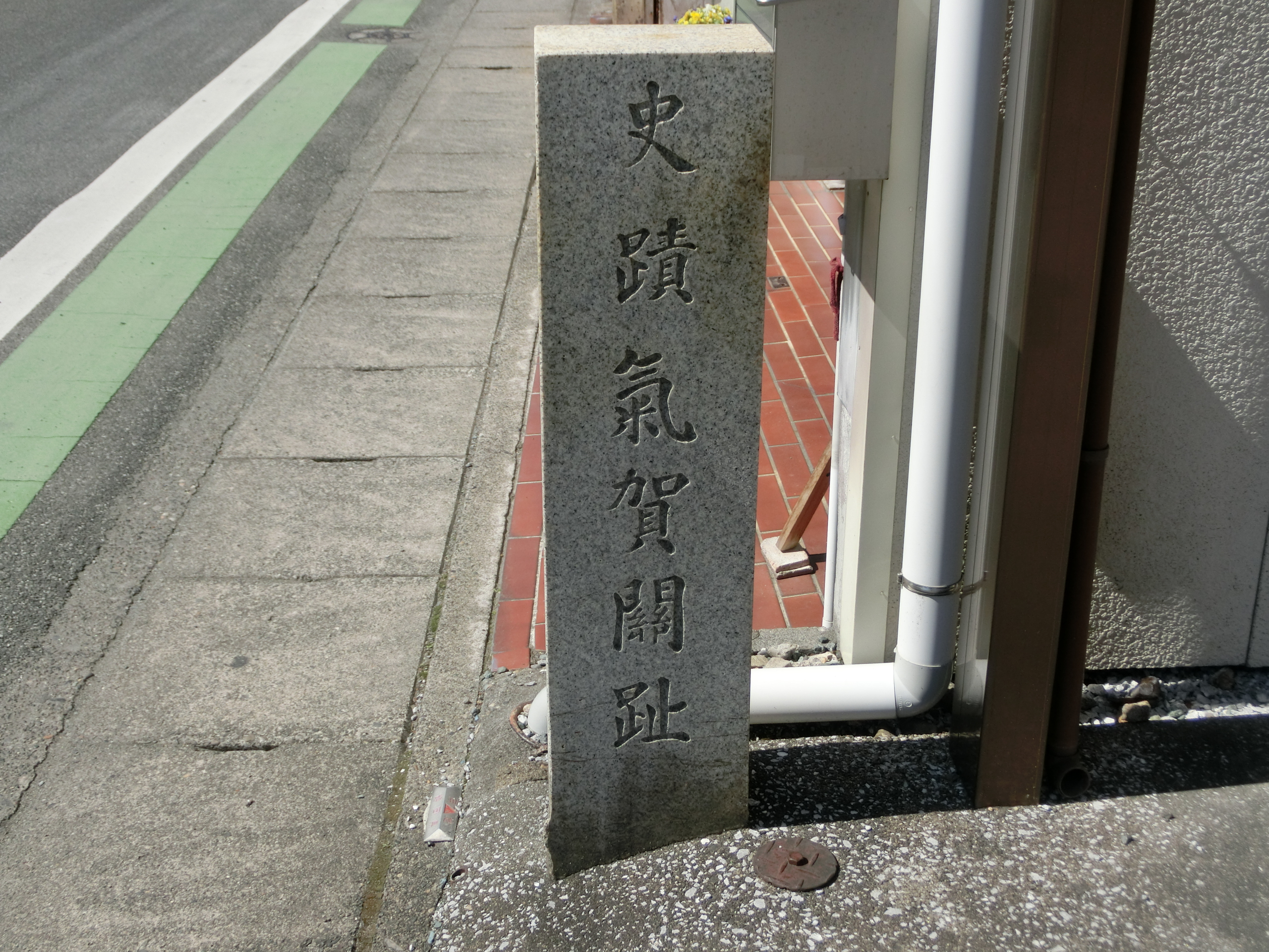 Ruins of Kiga Checkpoint Monument